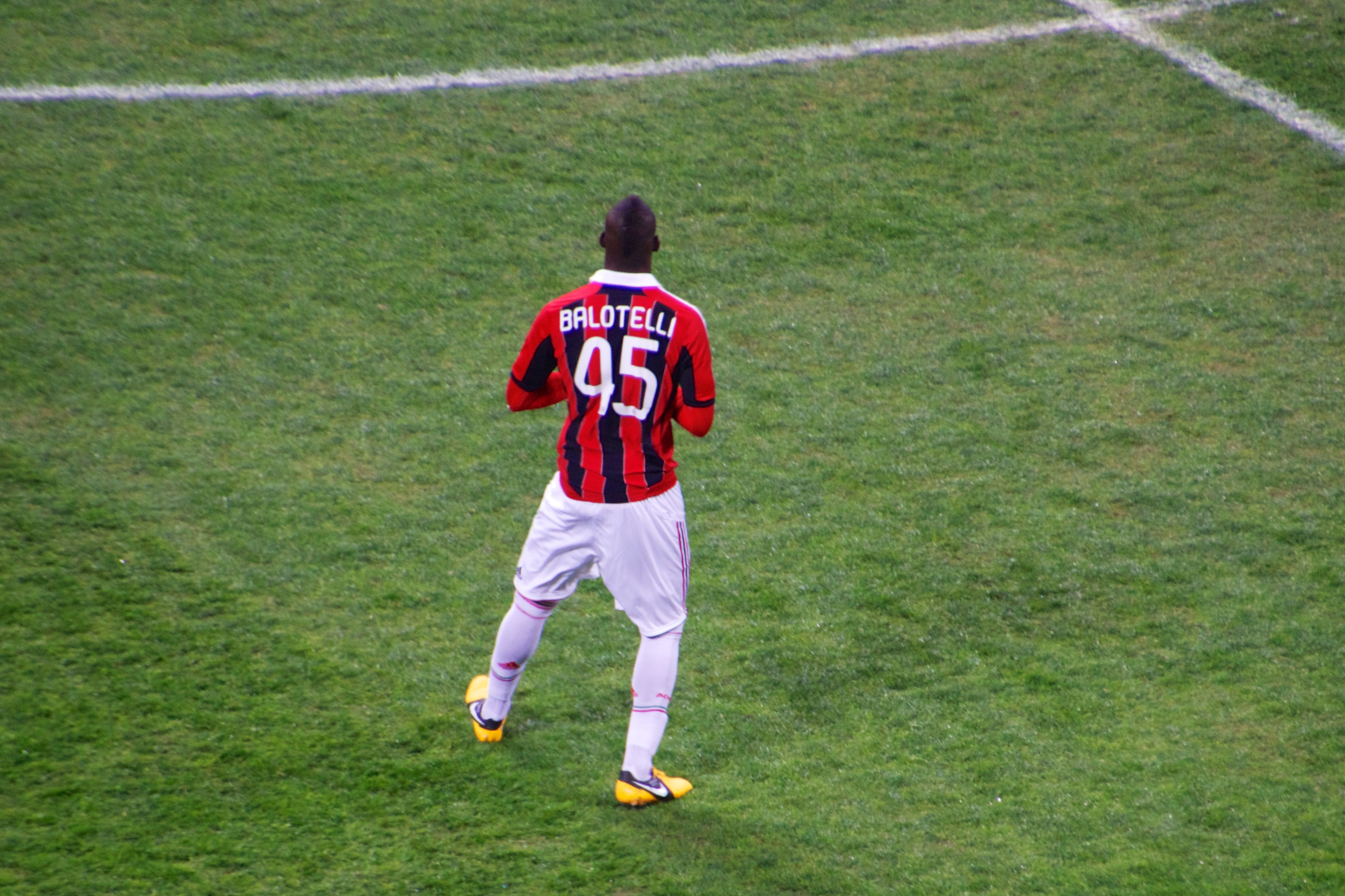 Mario Balotelli during FC Internazionale Milano-AC Milan, february 2013